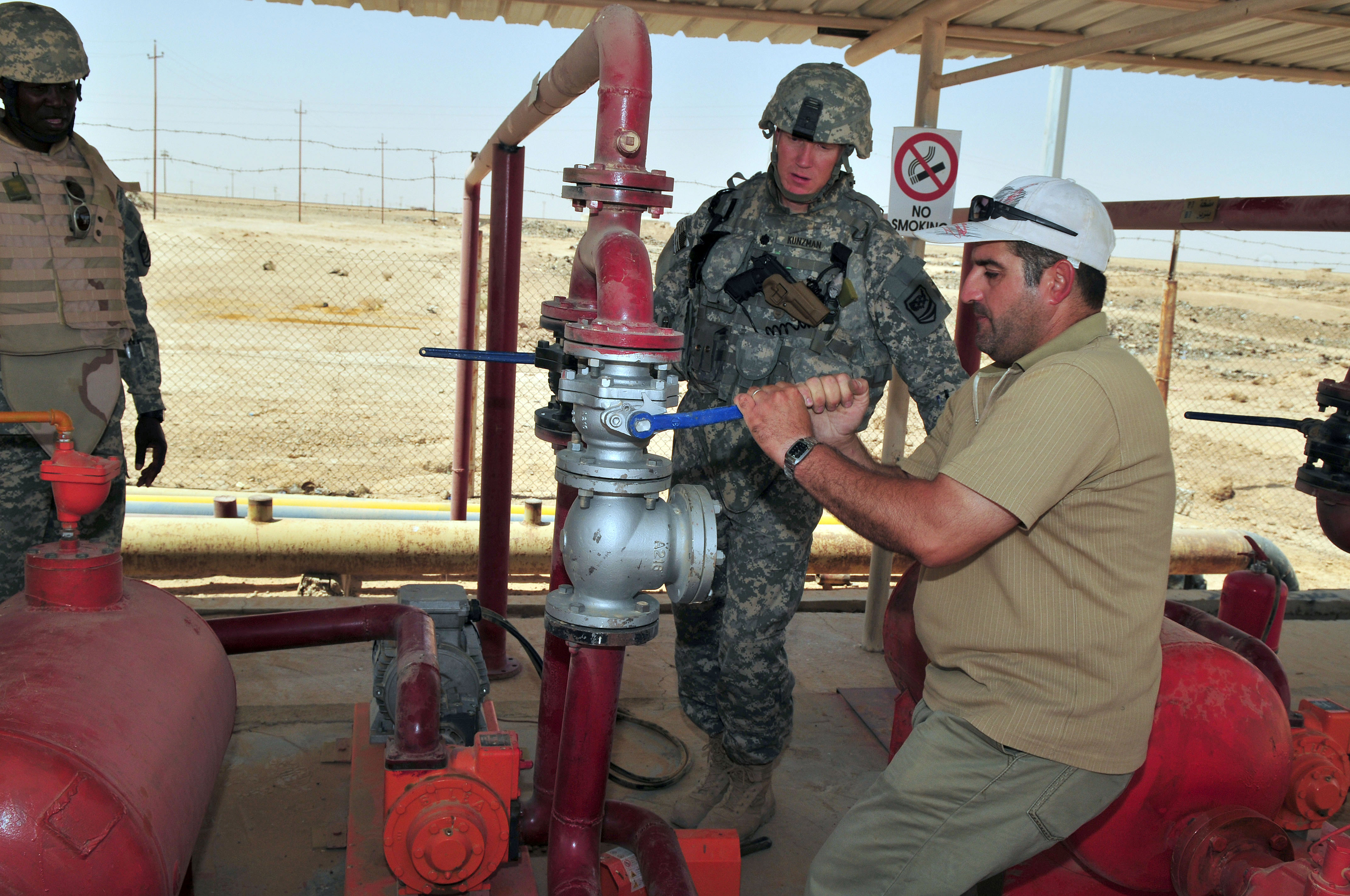 RAMADI, Iraq (July 22, 2008) Cmdr. Doug Kunzman, assigned to the embedded provincial reconstruction team in Al Anbar province, Iraq, watches as senior local engineer Ali Wesam checks the valve function on the distribution system at the Ramadi fuel depot. (U.S. Army photo by Sgt. 1st Class Robert C. Brogan/Released)